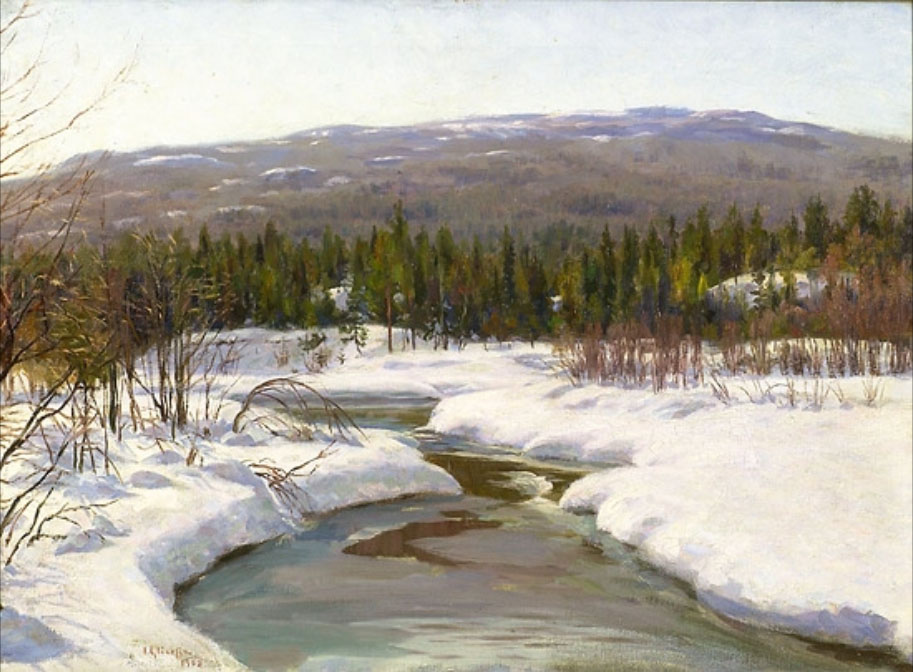 Landscape painting, 1908